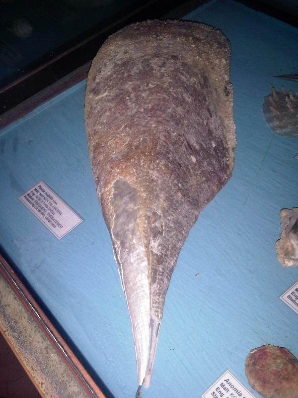 Noble pen shell or fan mussel (Pinna nobilis) at the National Museum of Natural History, Vilhena Palace, Republic of Malta.